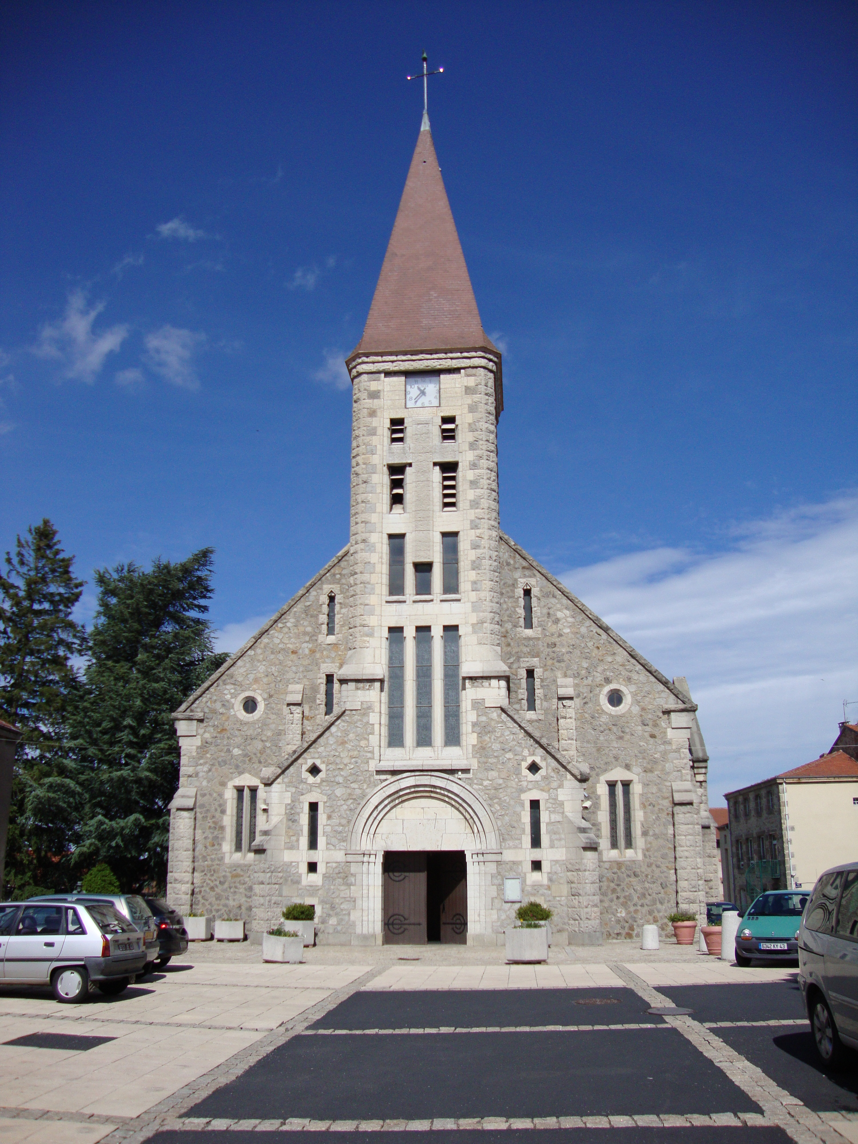 Saint-Just-Malmont (Haute-Loire, Fr) church